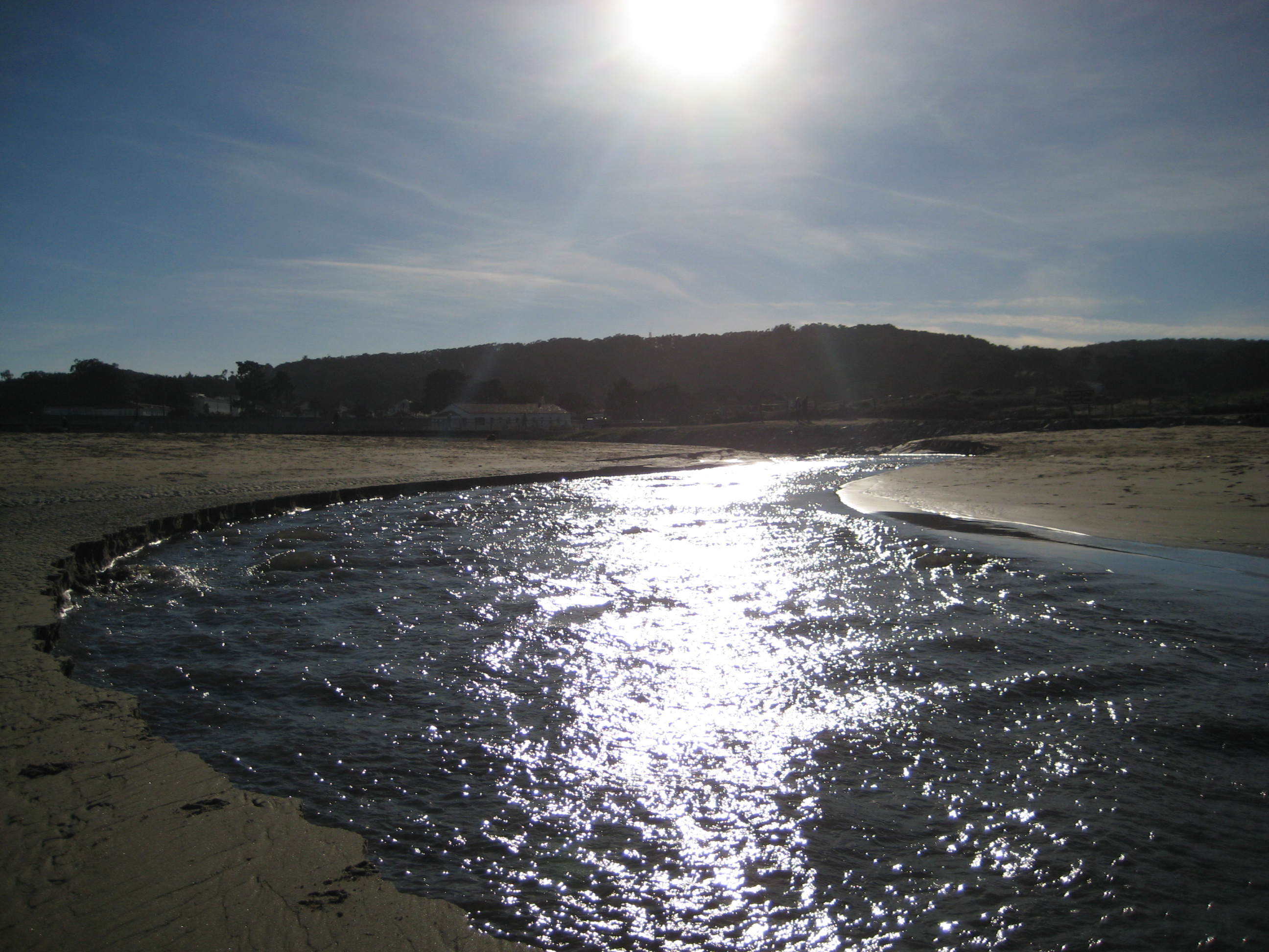 A photograph of a stream leading into the San Francsico Bay at Crissy Field